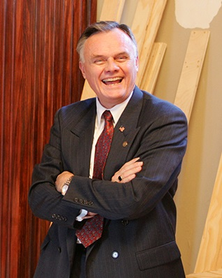 Chief Usher Gary J. Walters smiles while reviewing renovations of the White House family theater at the White House in Washington, D.C., in the United States on January 12, 2005.